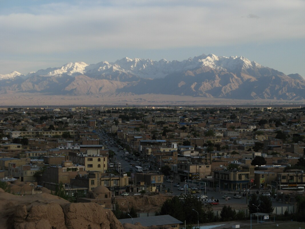 City of Kerman, Iran